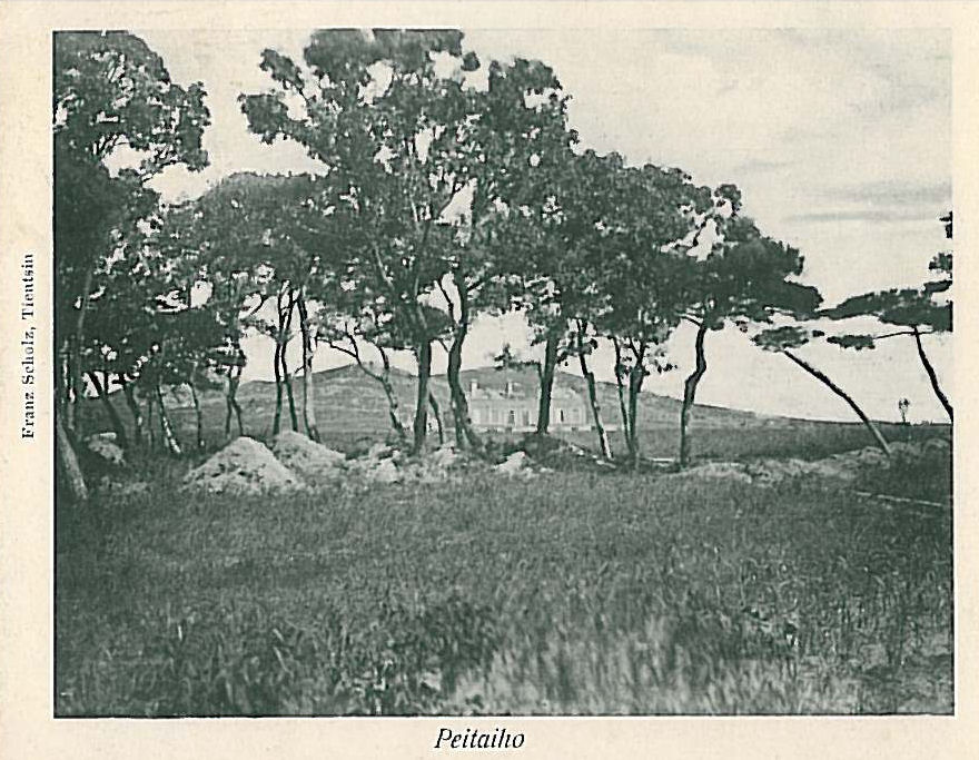 historical view of Beidaihe